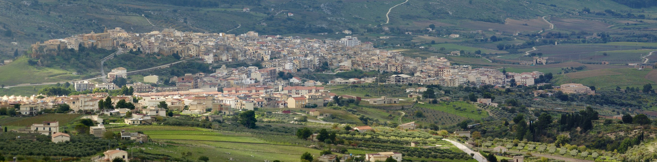 From a nearby hill.